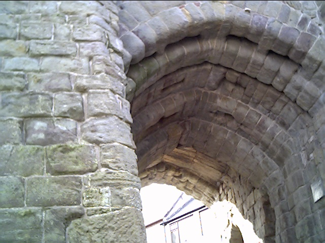 Inside Denbigh old town gate. Notice the 'murder holes' under the arch and multiple gates. There were used to pour water down to put out fires or hot oil on attackers !